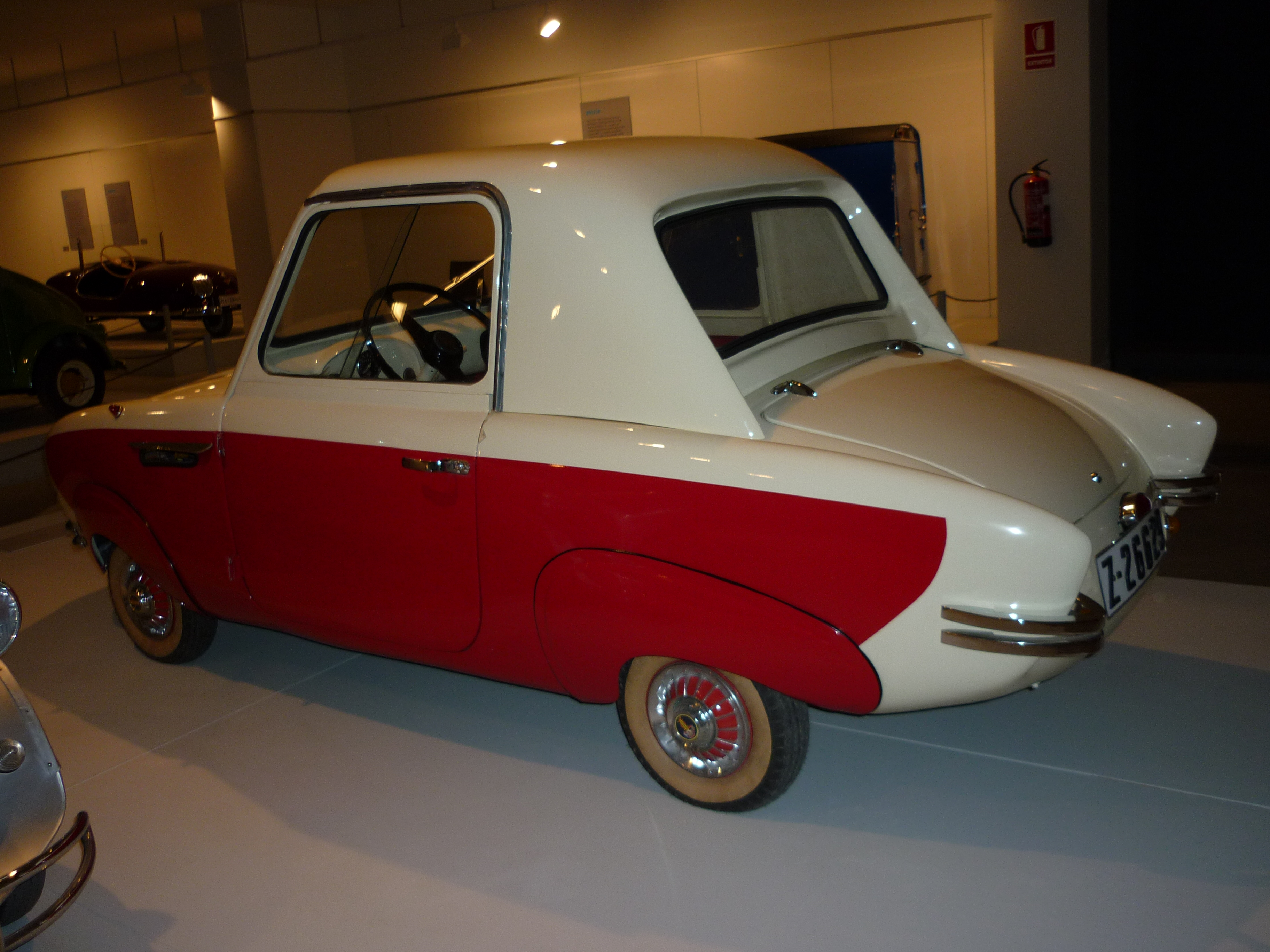 Biscúter Coupé 200-F Sport "Pegasín" (1958), microcar made in Catalonia